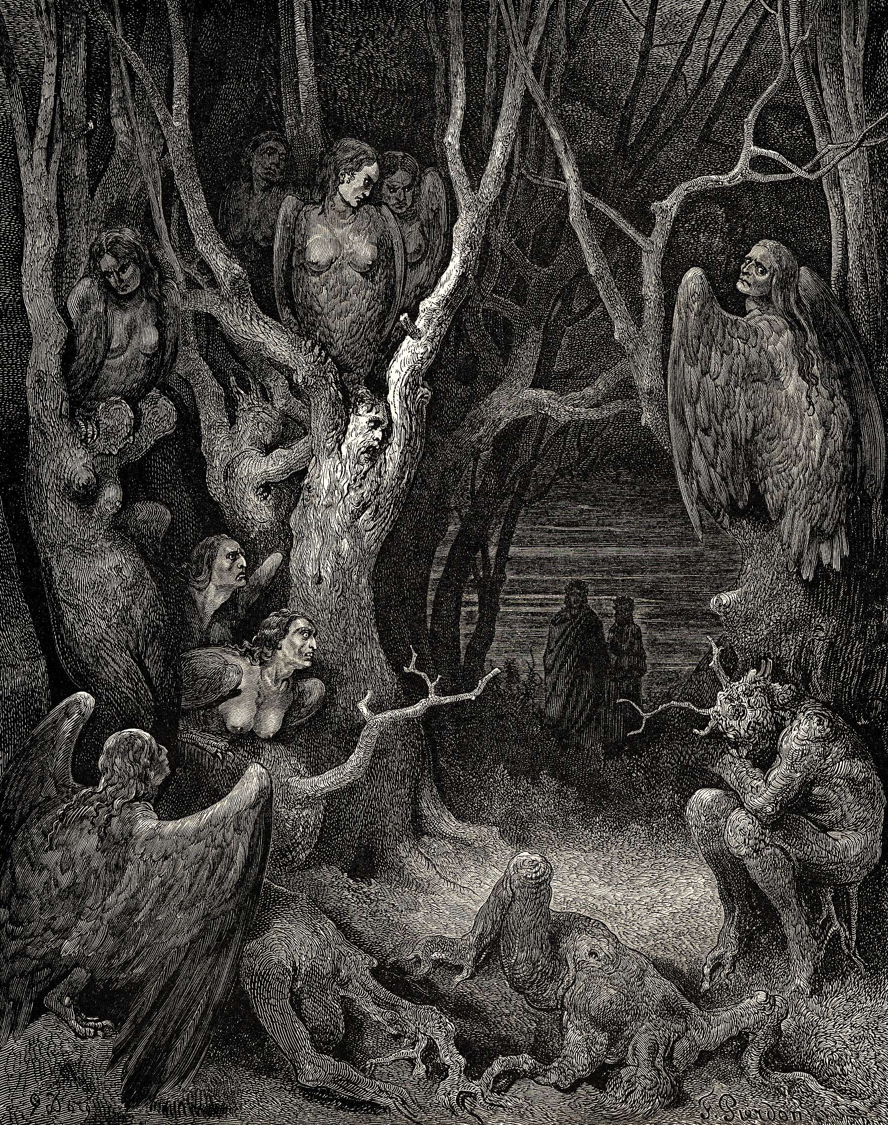 The Harpies